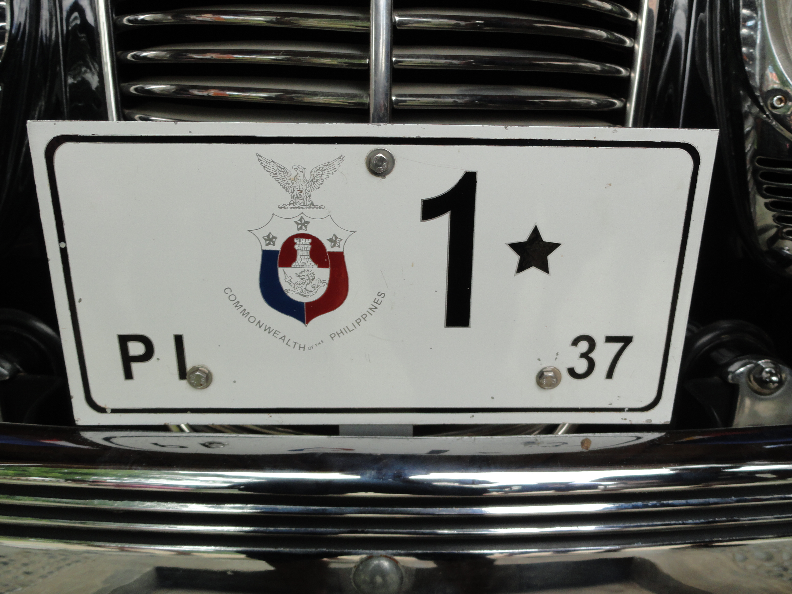 Baler, Aurora